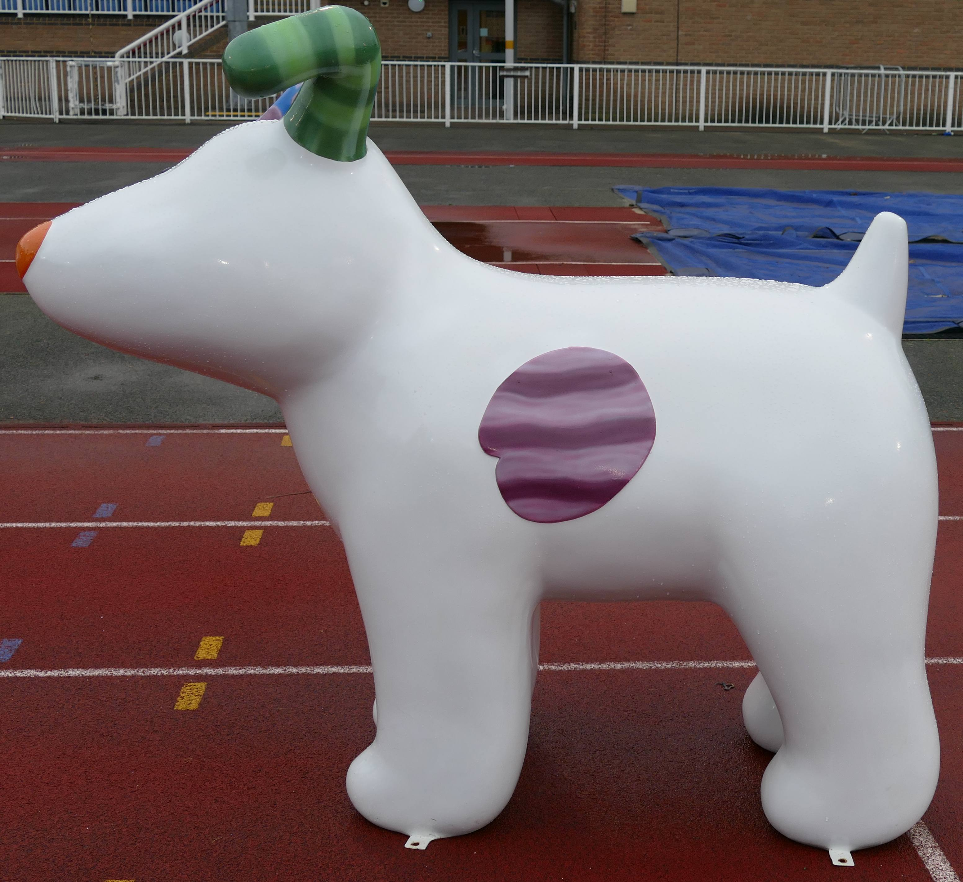 The Snowdog Classic, a large fibreglass sculpture of the Snowdog from The Snowman and The Snowdog. This Snowdog has appeared at all of the Snowdog Art Trails so far. This picture was taken at the Snowdogs Discover Ashford Farewell Weekend on December 3, 2018, by myself. The copyright of the Snowdog sculpture is held by Wild In Art Ltd and is used in this photo under the UK's freedom of panorama rules.